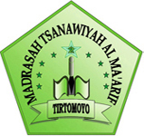 Official logo Owned MTs Al Ma'arif 2 Tirtomoyo